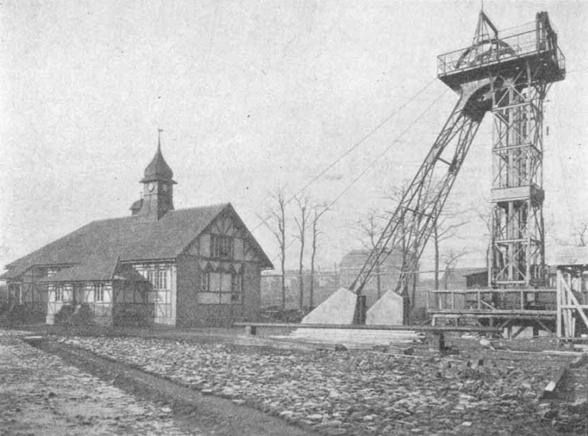 The Glückauf pit (German: Glückaufschacht) of Königin Luise coal mine (Polish: Królowa Luiza) in Zabrze.